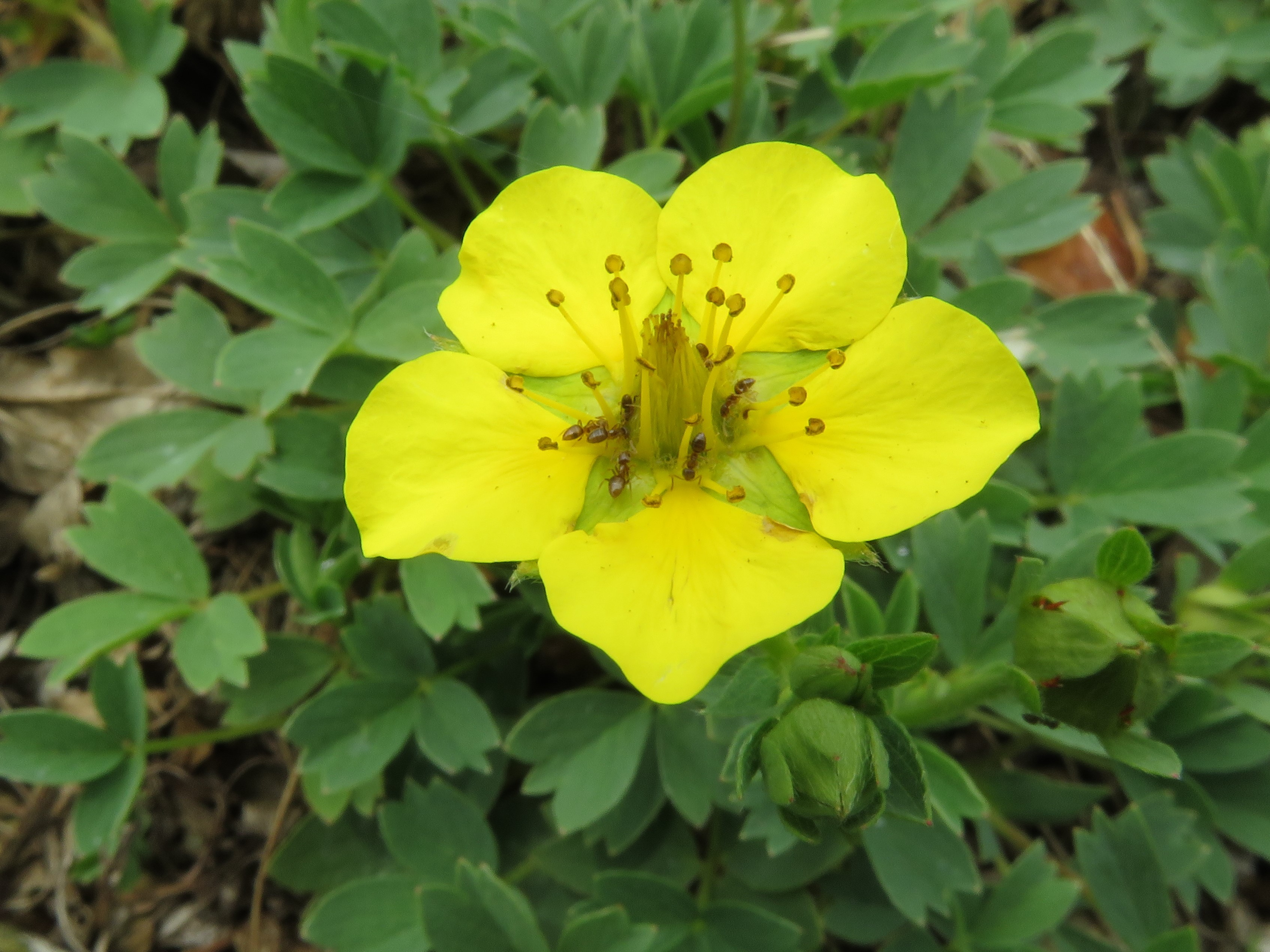 Sibbaldia miyabei, Tsukuba Botanical Garden, Ibaraki pref., Japan